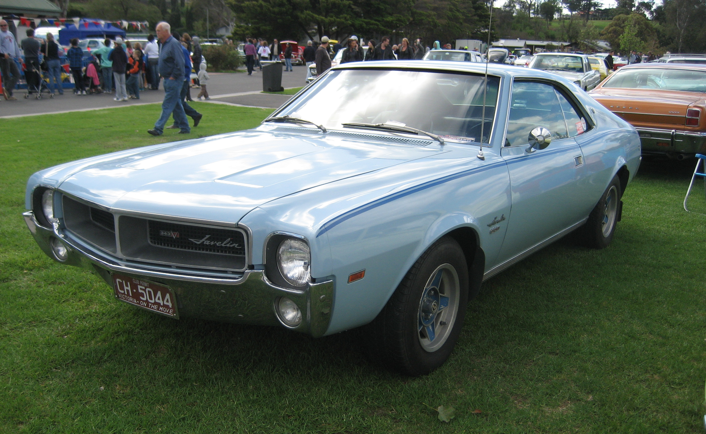 A 'Pony' Car built from 1967 to 1974 only available as a 2 door Hardtop. Available in Base, SST and the "Go" package- 4 barrell, discs, stripes, Magnum wheels. Engines; 232 6 cyl, 290,343 or 390 V8s